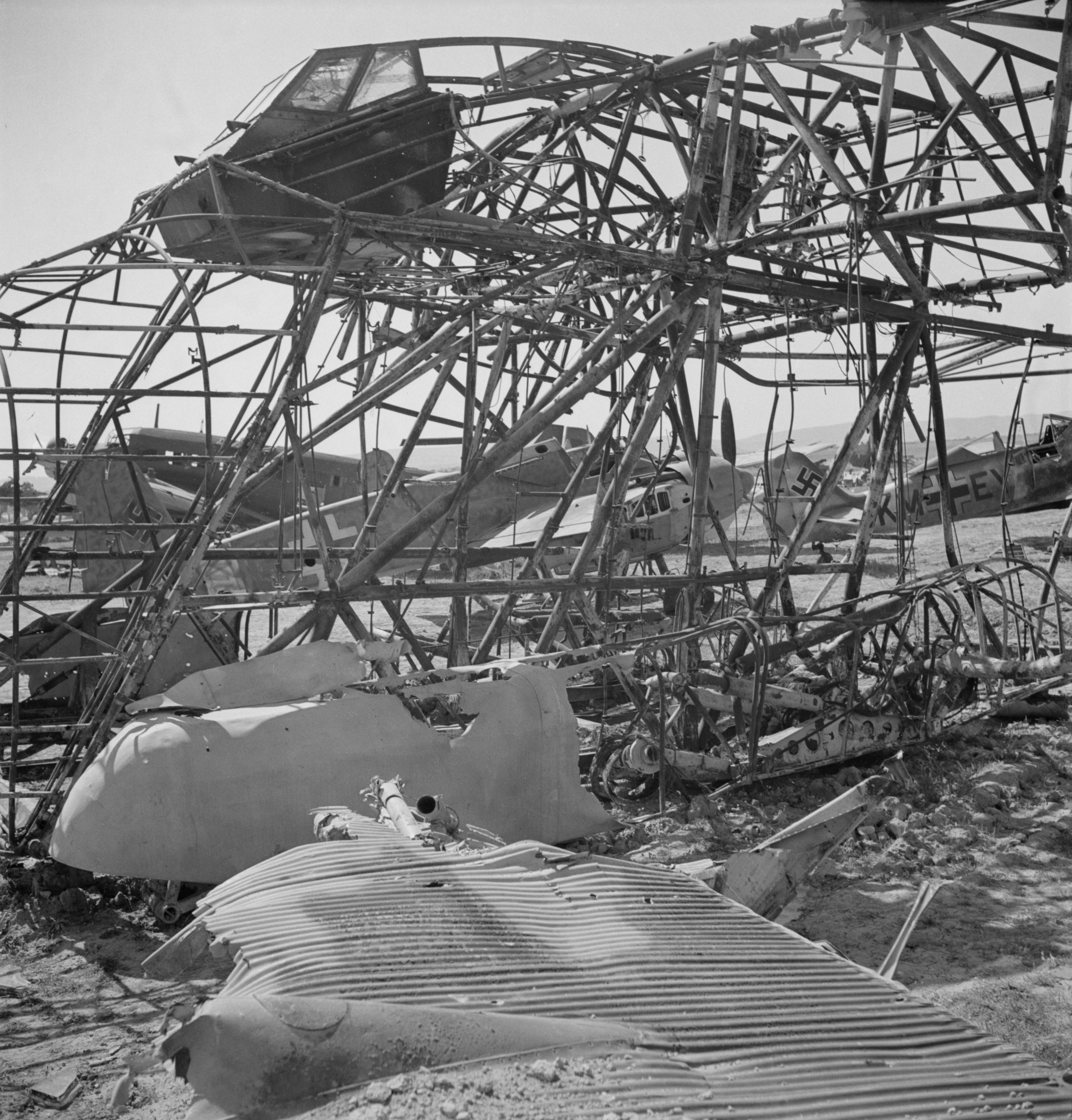 Wrecked German planes at El Aouiana airport, Tunis, Tunisia, in May 1943. In front lies the wing of an Junkers Ju 52/3m transport, one which is also visible in the background. The prominent structure are the remains of an Messerschmitt Me 323D Gigant transport. Behind it is a damaged Henschel Hs 129B of 5.(Pz)/Schlachtgeschwader 1 and a Focke-Wulf Fw 190A-4 (KM+EY) of III./SKG 10.